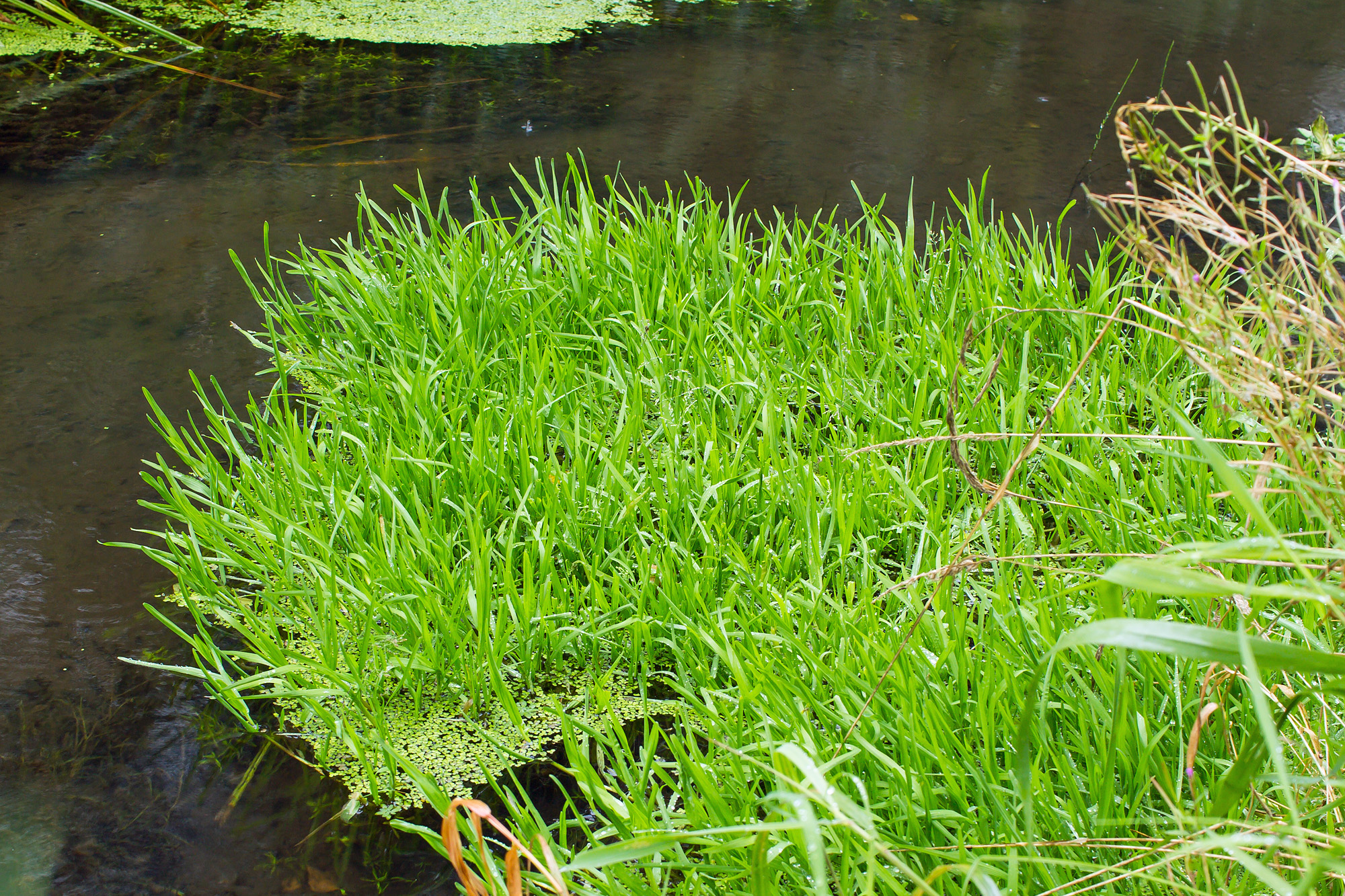 Aspect of the grass Catabrosa aquatica, flooding in a ditch.